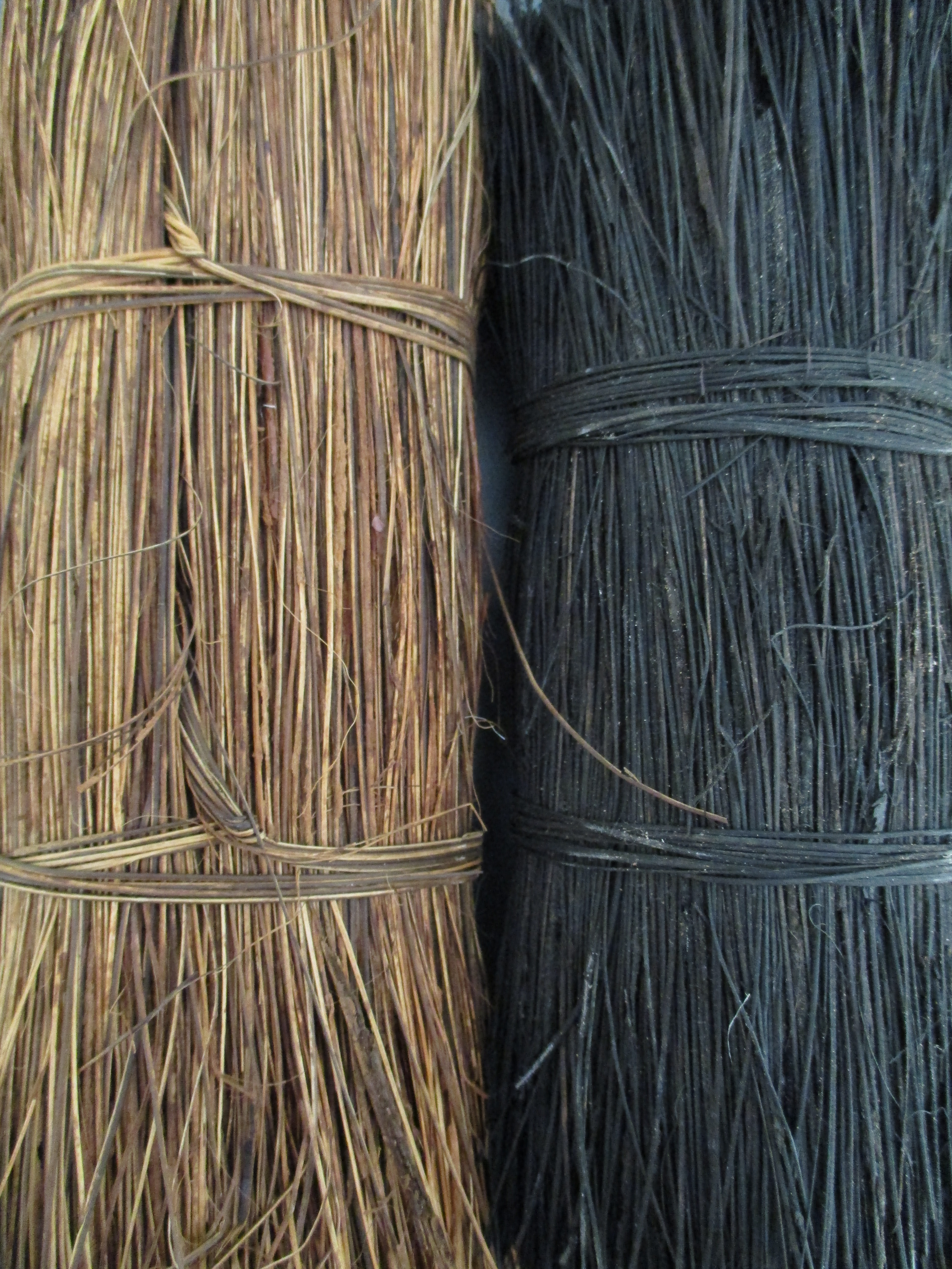 Piassava fibre (left) and Bassine fibre from borassus flabellifer (right) used for brushes and brooms